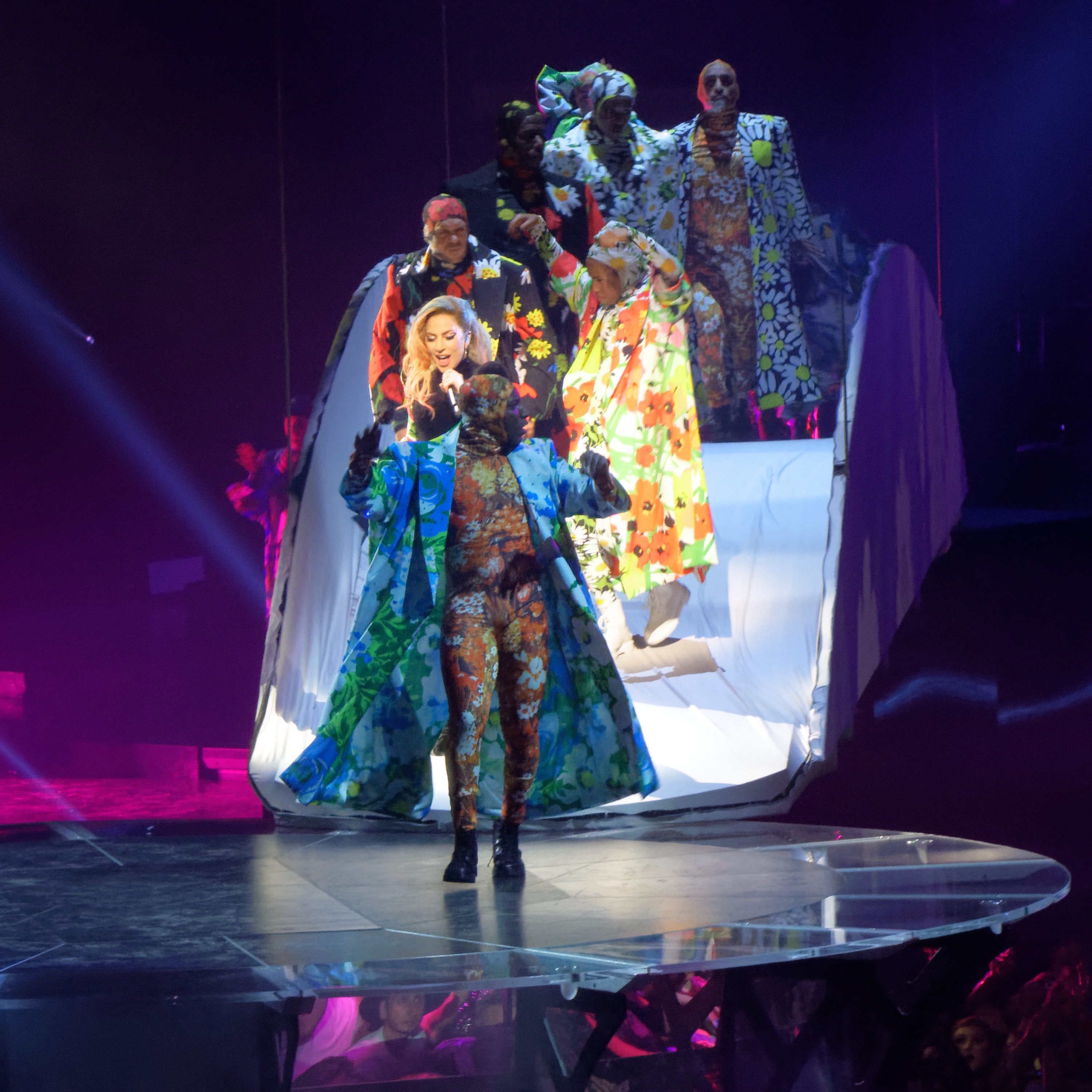 Lady Gaga performing "Applause" on the Joanne World Tour, in Tacoma